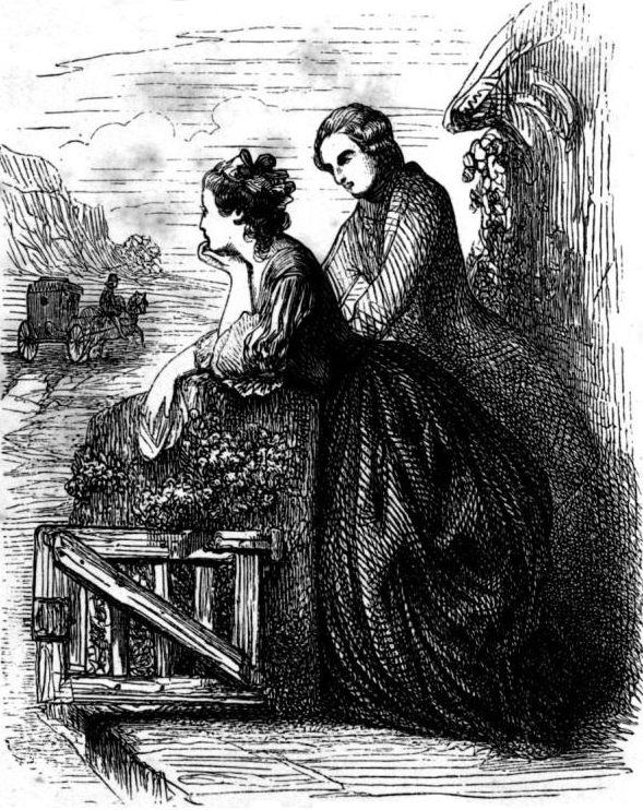 Illustration of Julie, or the New Heloise by Jean-Jacques Rousseau (1712-1778)